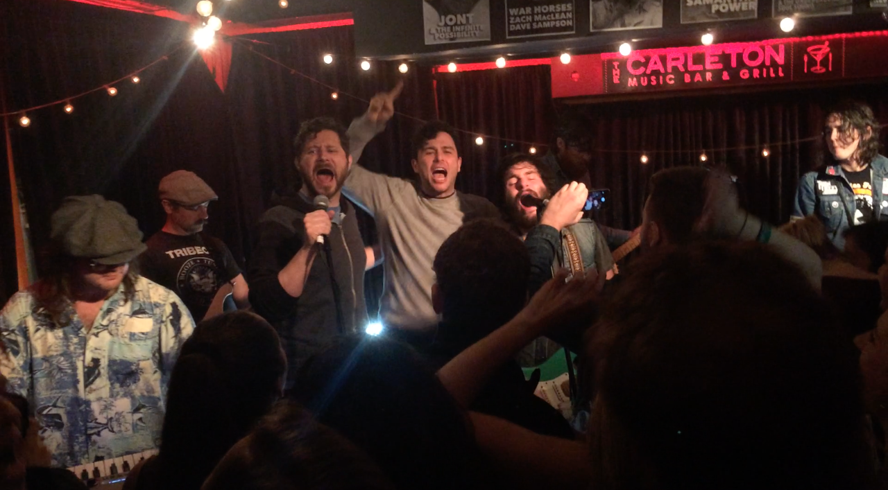 Adam Baldwin, Max Kerman and Dan Mangan singing 'Dancing in the Dark,' at the Carleton, 2016